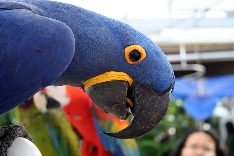 Hyacinth Macaw captive in Canada.